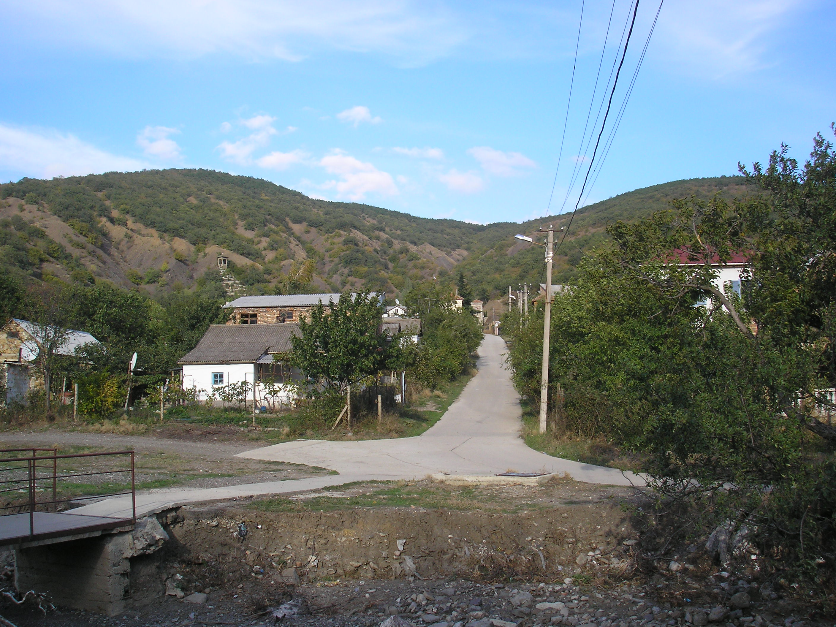 Village Gromovka, Urban District Sudak Republic of Crimea